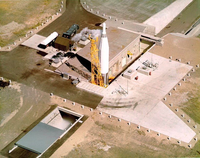 Convair SM-65E Atlas 567 SMS 567-1 Deer Park Washington 18 August 1961